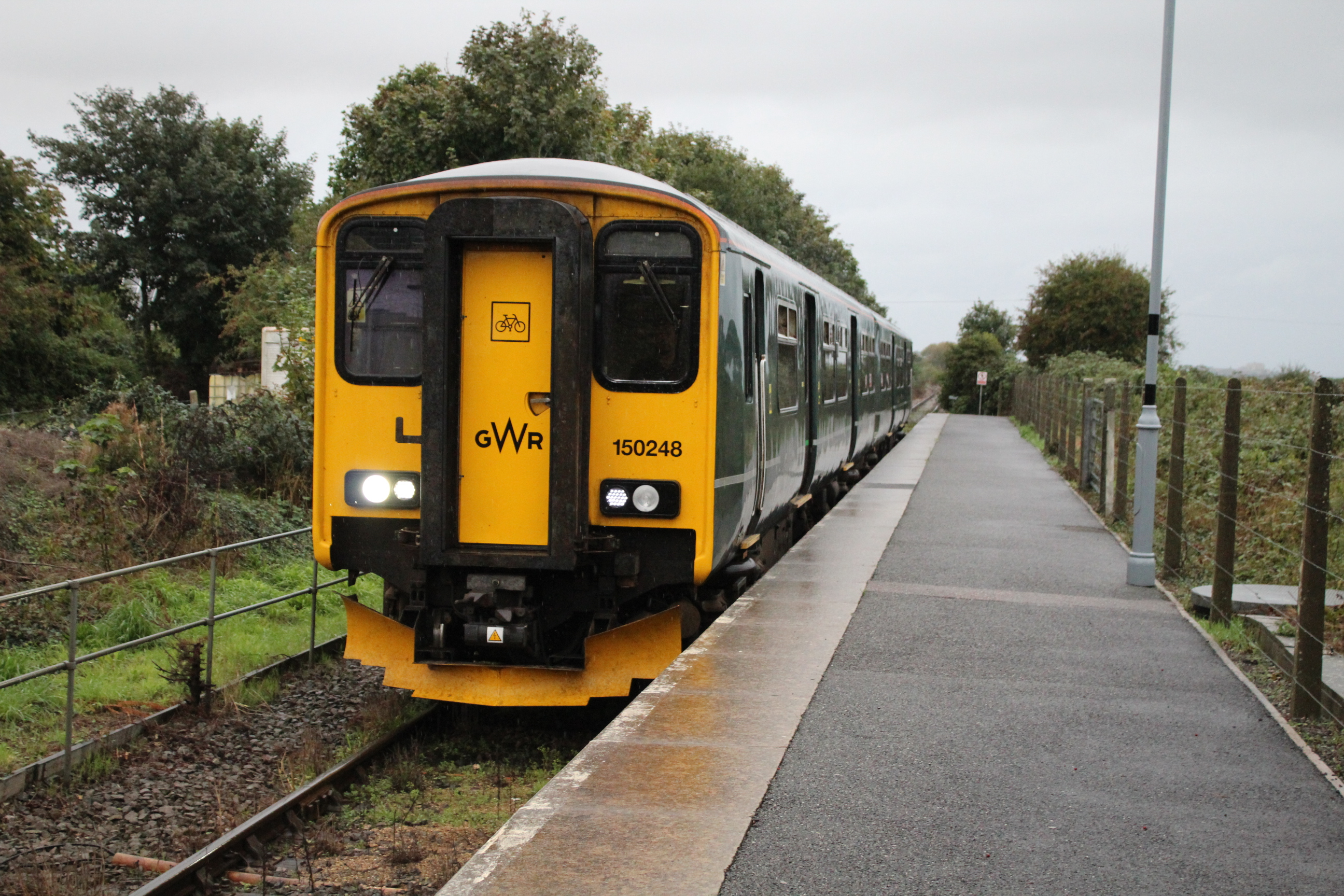 150248 arrives into Quintrell Downs working the first Par service from Newquay